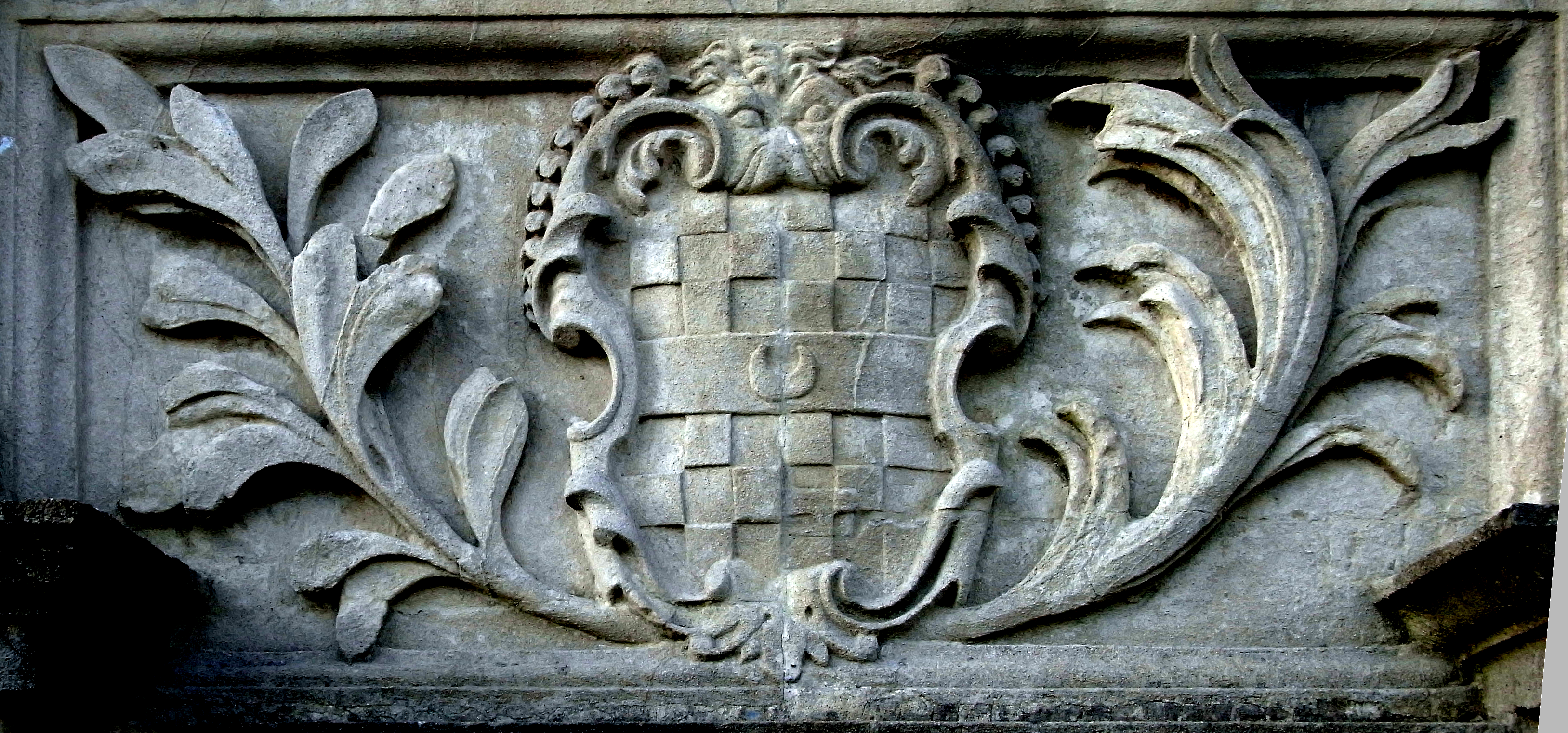 Sculpted escutcheon on Queen Anne's Walk, Barnstaple, Devon, circa 1709-1713: Chequy argent and sable, a fesse gules a crescent for difference. Arms of Acland, for Richard II Acland (1679-1729), of Fremington House, lord of the manor of Fremington, near Barnstaple, MP for Barnstaple 1708-13.